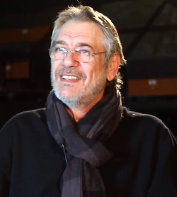 Marcel Iures, Romanian actor.